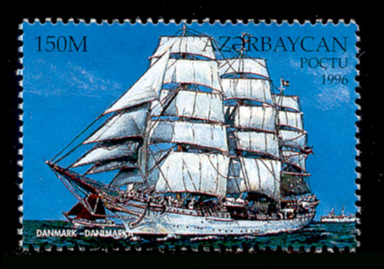 Stamp of Azerbaijan